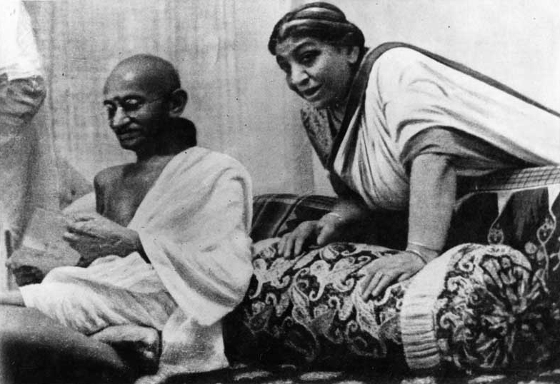 Mahatma Gandhi and Sarojini Naidu at 1942 AICC Session.